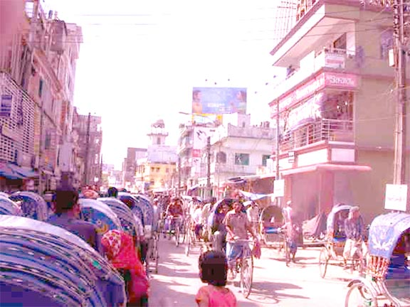 City Center point, Ganginarpar, Mymensingh.